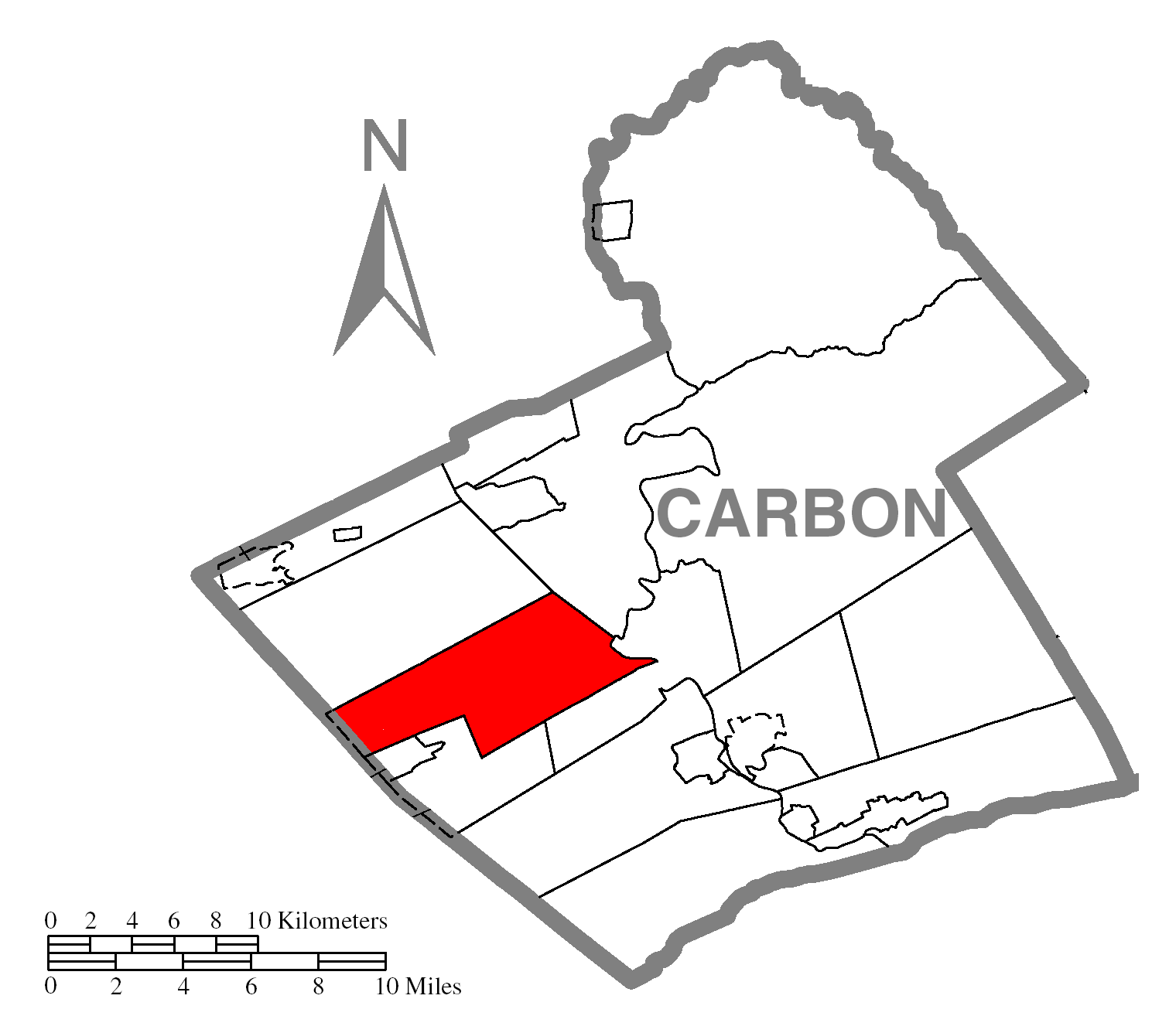 A map of Carbon County showing Nesquehoning Township, Pennsylvania (alternate) highlighted on the map.